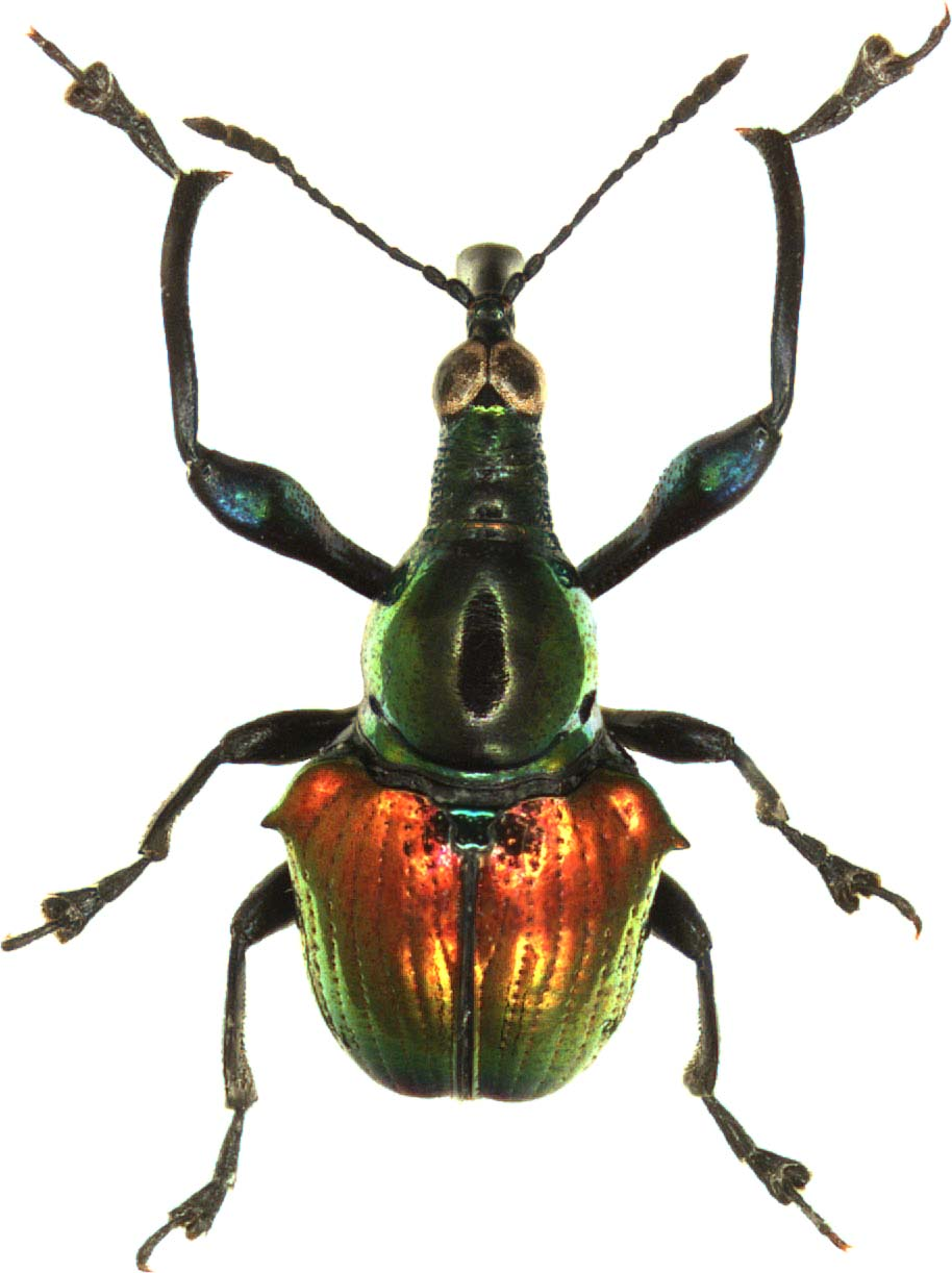 Euops cupreosplendens, male from Cyclops Mountains, West New Guinea; habitus, dorsal aspect